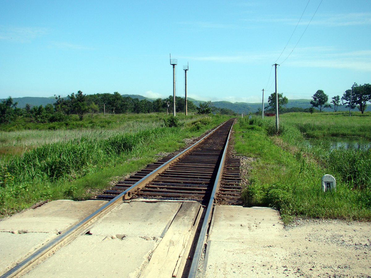 Railway nearby Pozharski halt. Russia, Primorsky Krai.